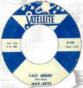 The Mar-Keys